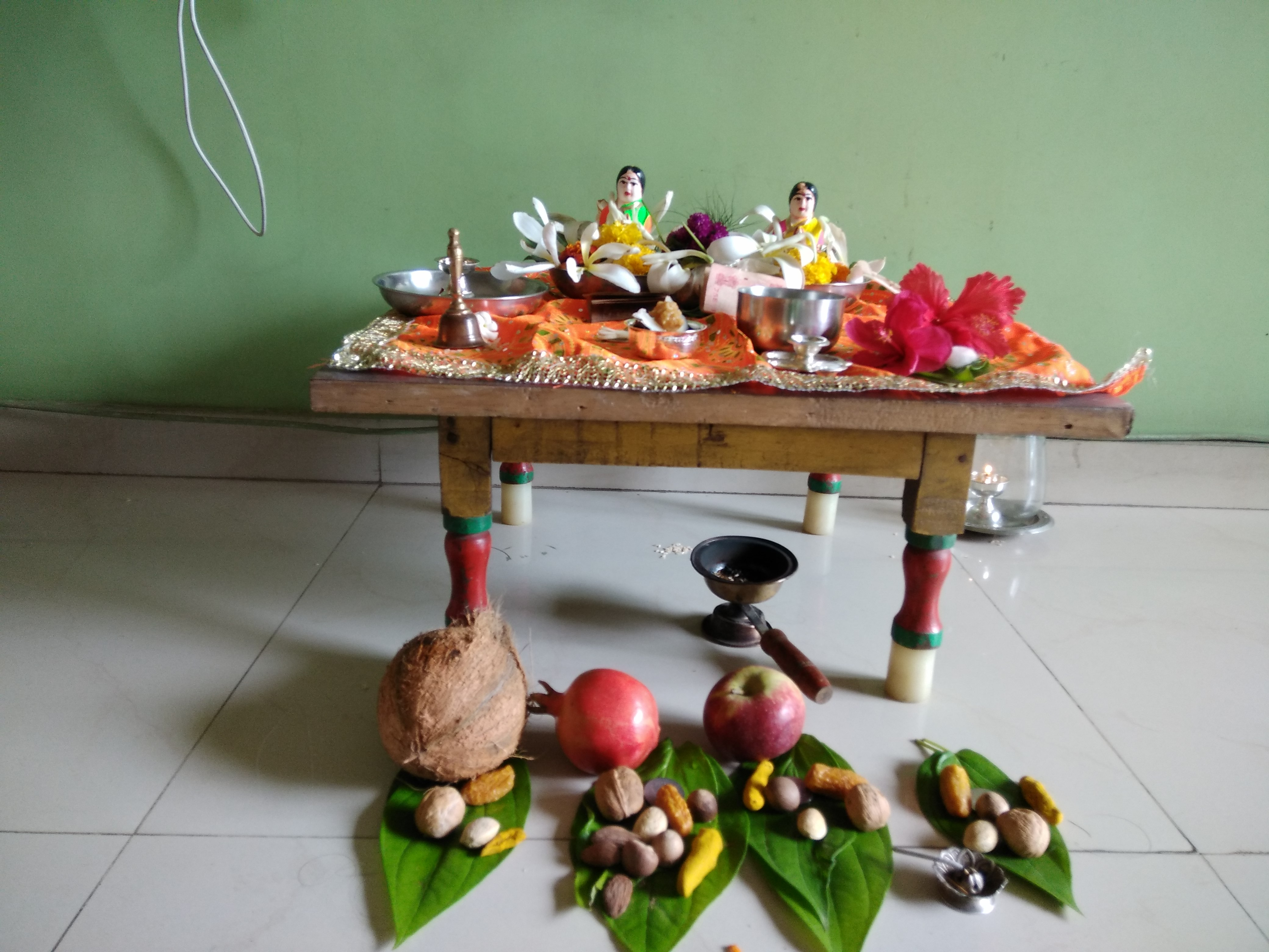 Haritalika Pooja